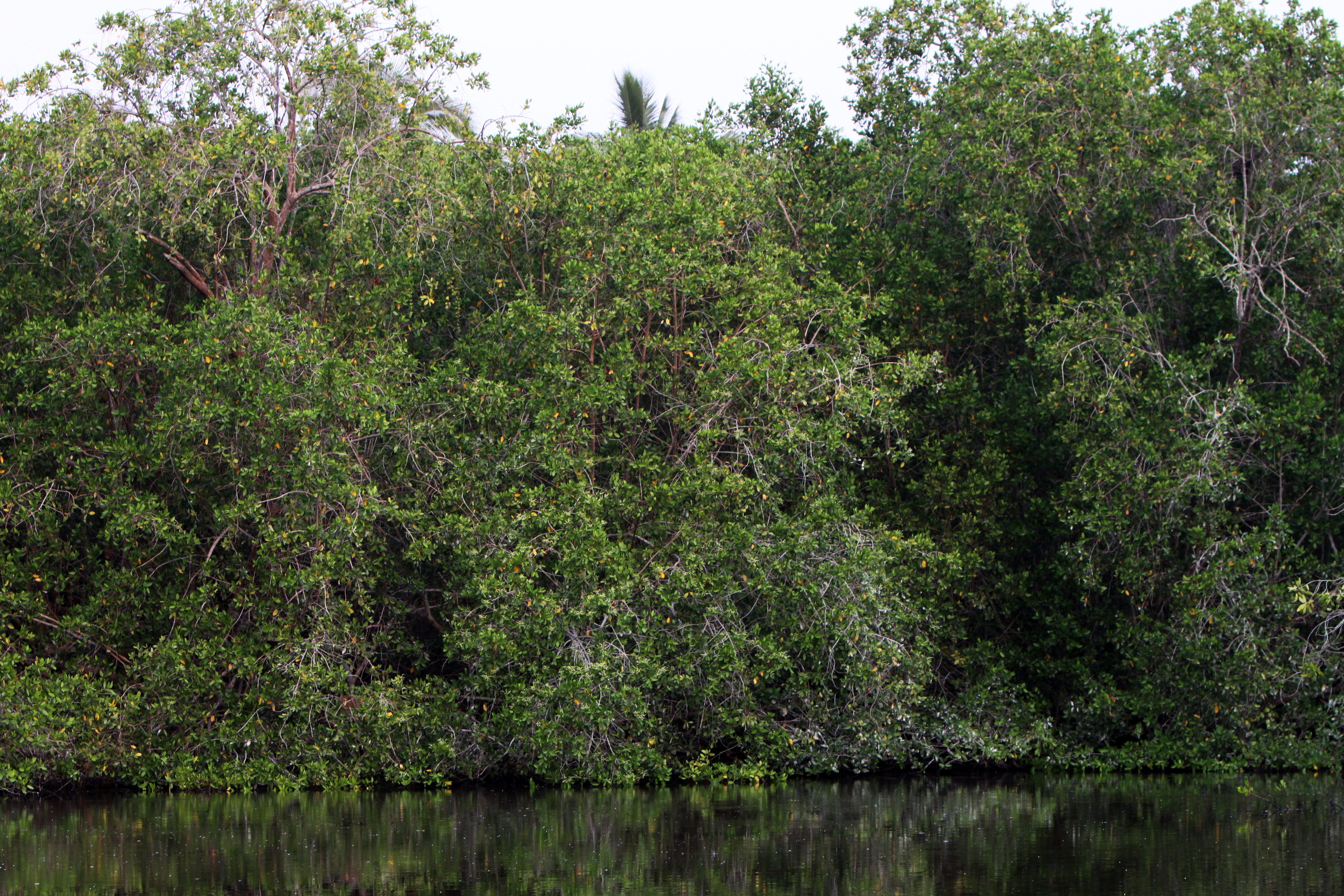 Mangrove (Laguncularia racemosa)in La Manzanilla, Jalisco. Manglar (Laguncularia racemosa) en La Manzanilla, Jalisco, México) Mangrove